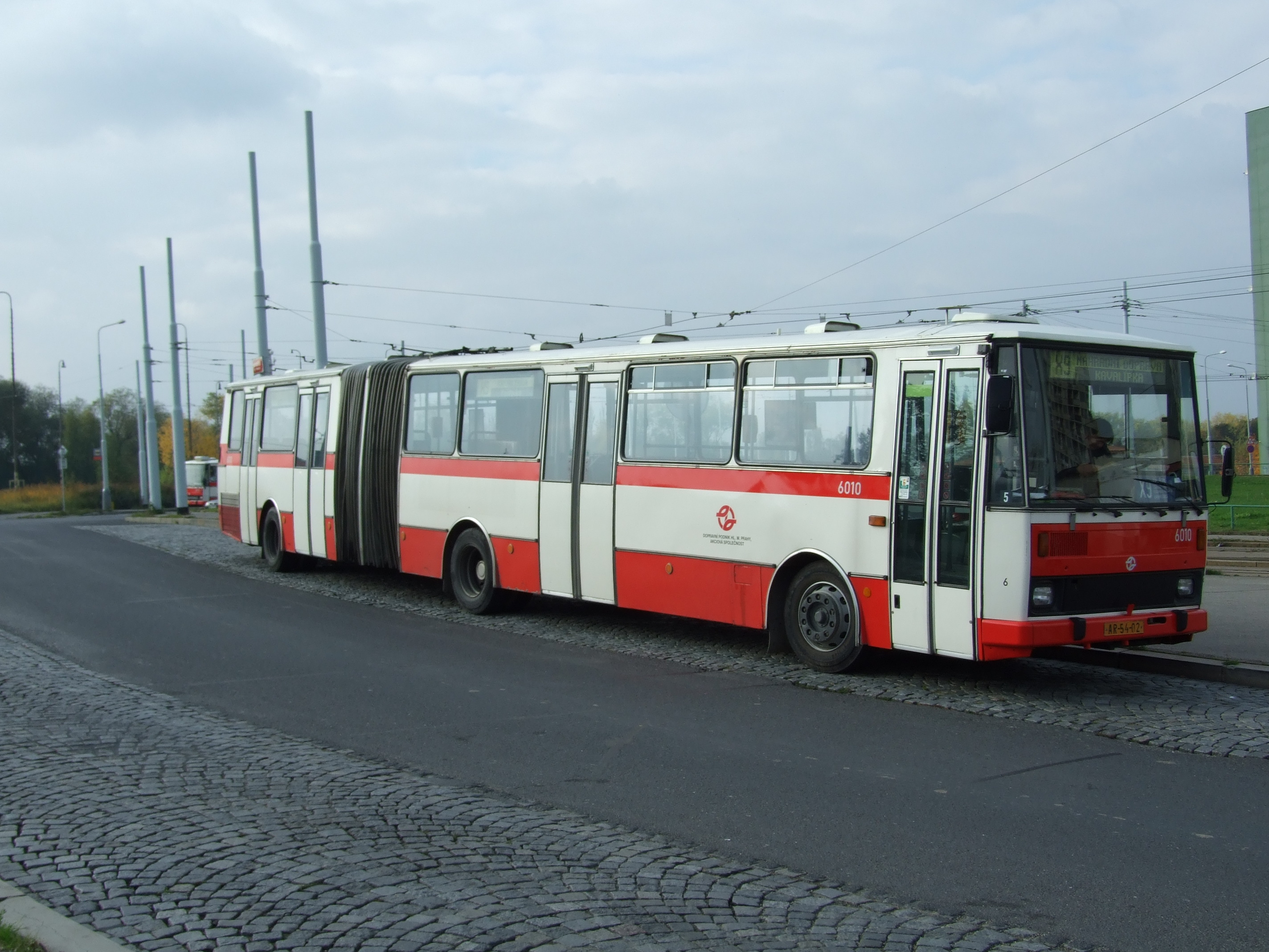 Prague bus Karosa B 741